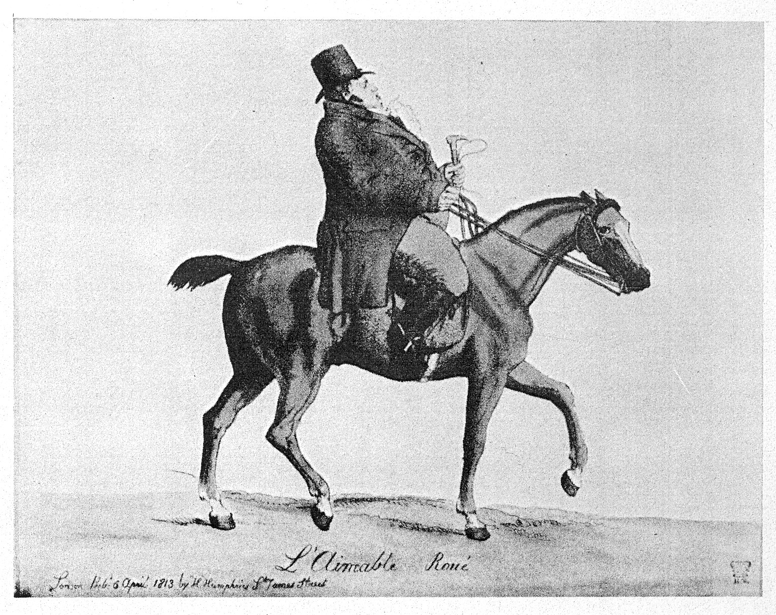 Caricature of Peter Borisovich Kozlovski published in London, dated 6th April 1813, by H. Humphreys.